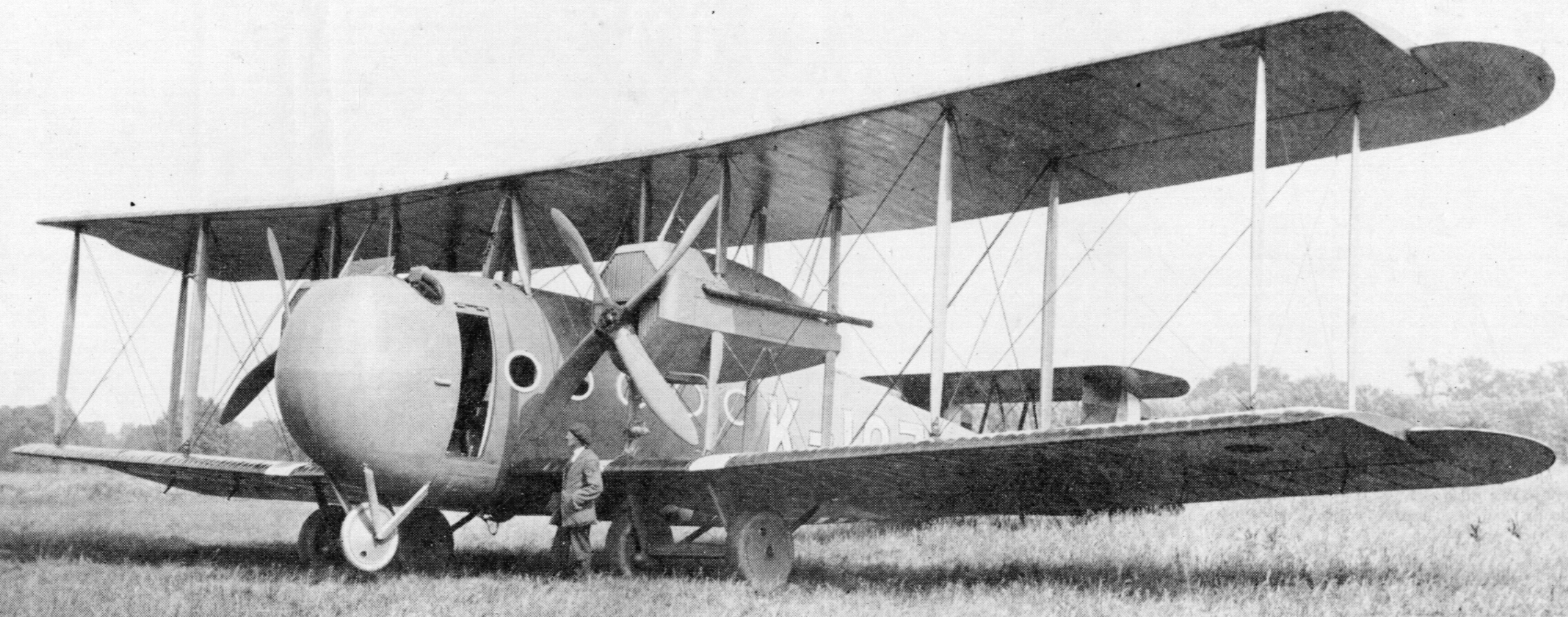 Vickers Vimy Commercial. Original description: "Vickers 'VIMY' Two-engined bombing aeroplane converted for commercial use"